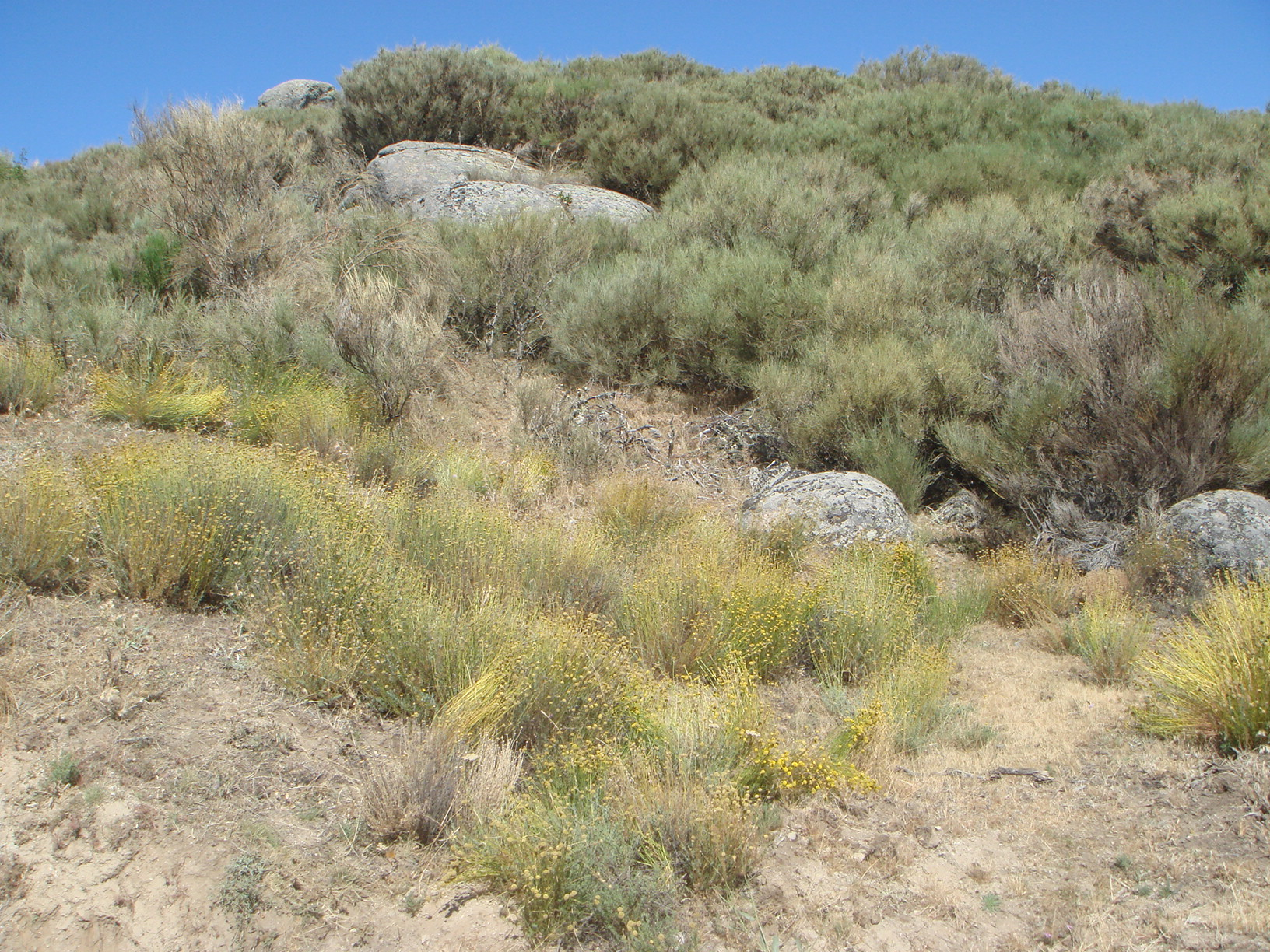 Green lavender cotton (Santolina rosmarinifolia) & (Genista cinerascens), Spain, Sierra de Ávila.